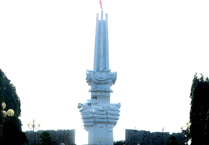 The photograph shows the Binh Gia victory monument dedicated to the Viet Cong.